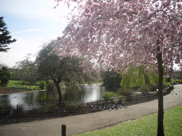 Pink blossoms in Ravenscourt Park